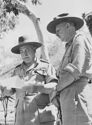 New Guinea. At the Headquarters of General Sir Thomas Blamey, General Sir Iven Mackay (right), newly appointed High Commissioner to India, meets with Sir Thomas Blamey (left) in the outdoors.